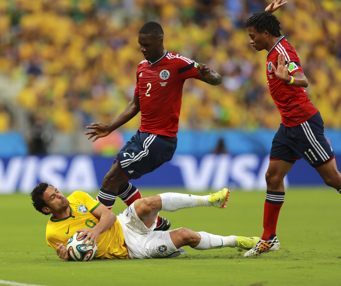 Brazil and Colombia match at the FIFA World Cup 2014-07-04